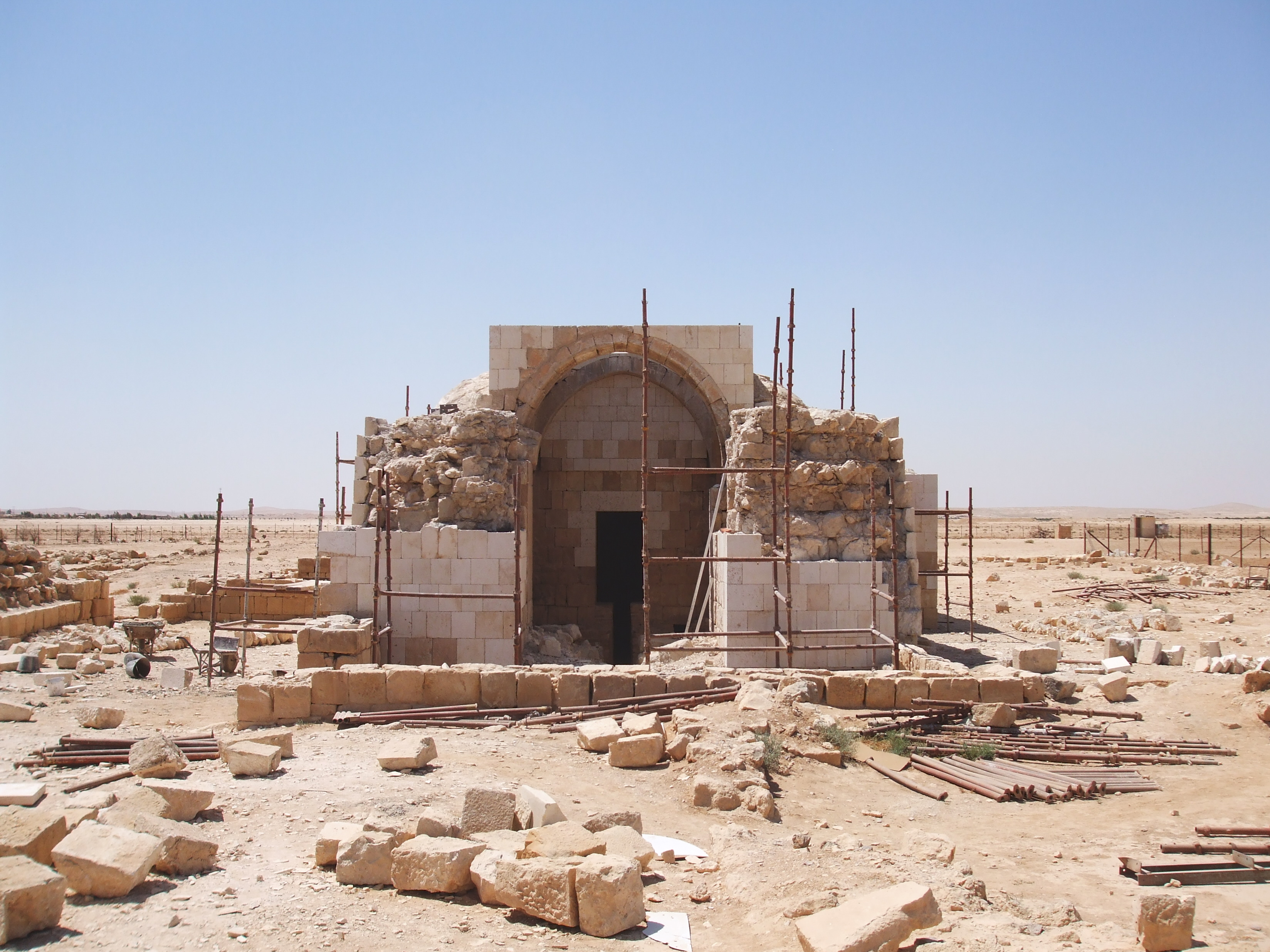 This is a frontal view of Qasr Hammam As-Sarah